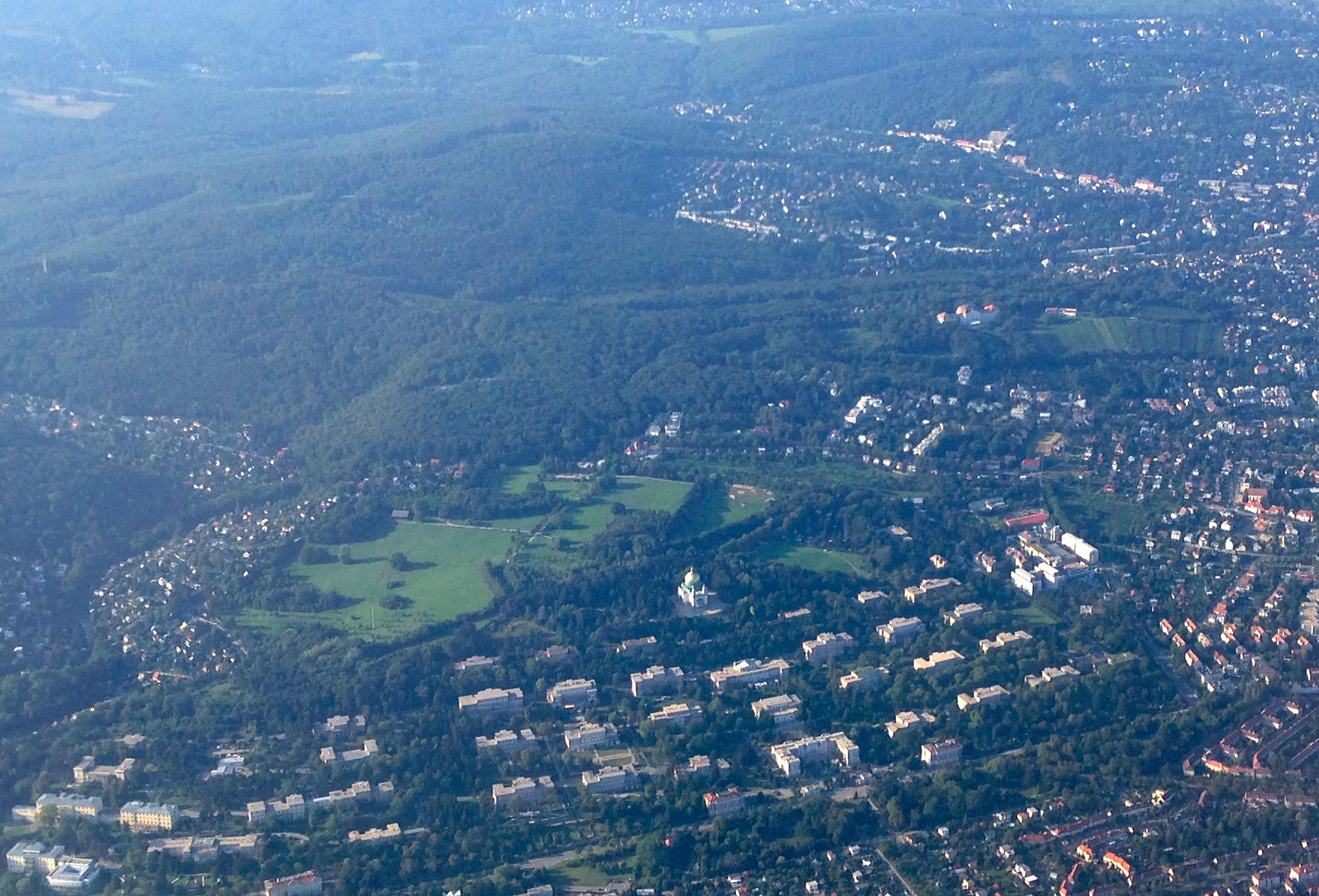 Landing in Vienna on August 2, 2014. Window seat on the pilot’s side. Approach takes you over the city of Vienna and, it was a beautiful day.